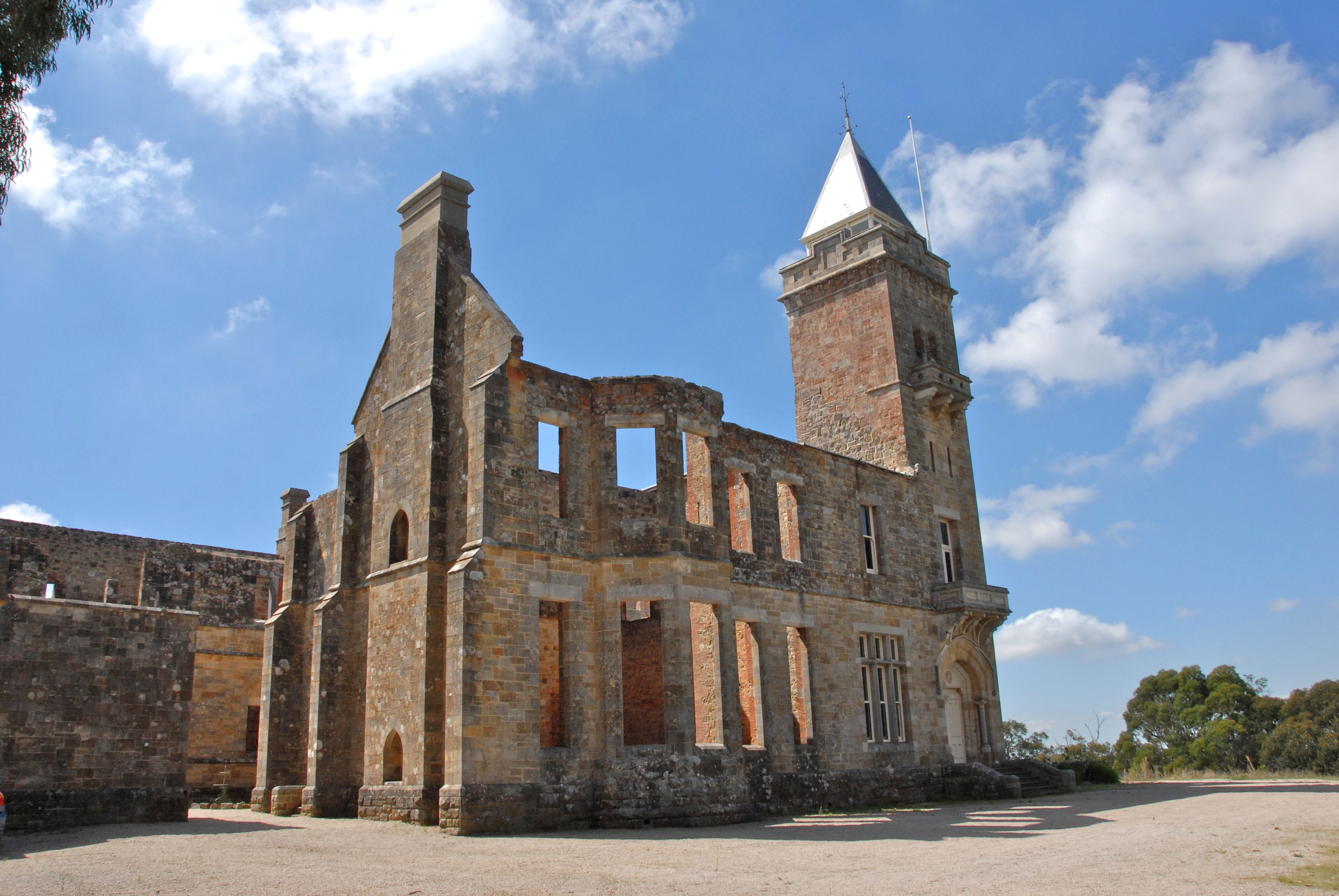 Marble Hill Ruin from southwest, March 2009.